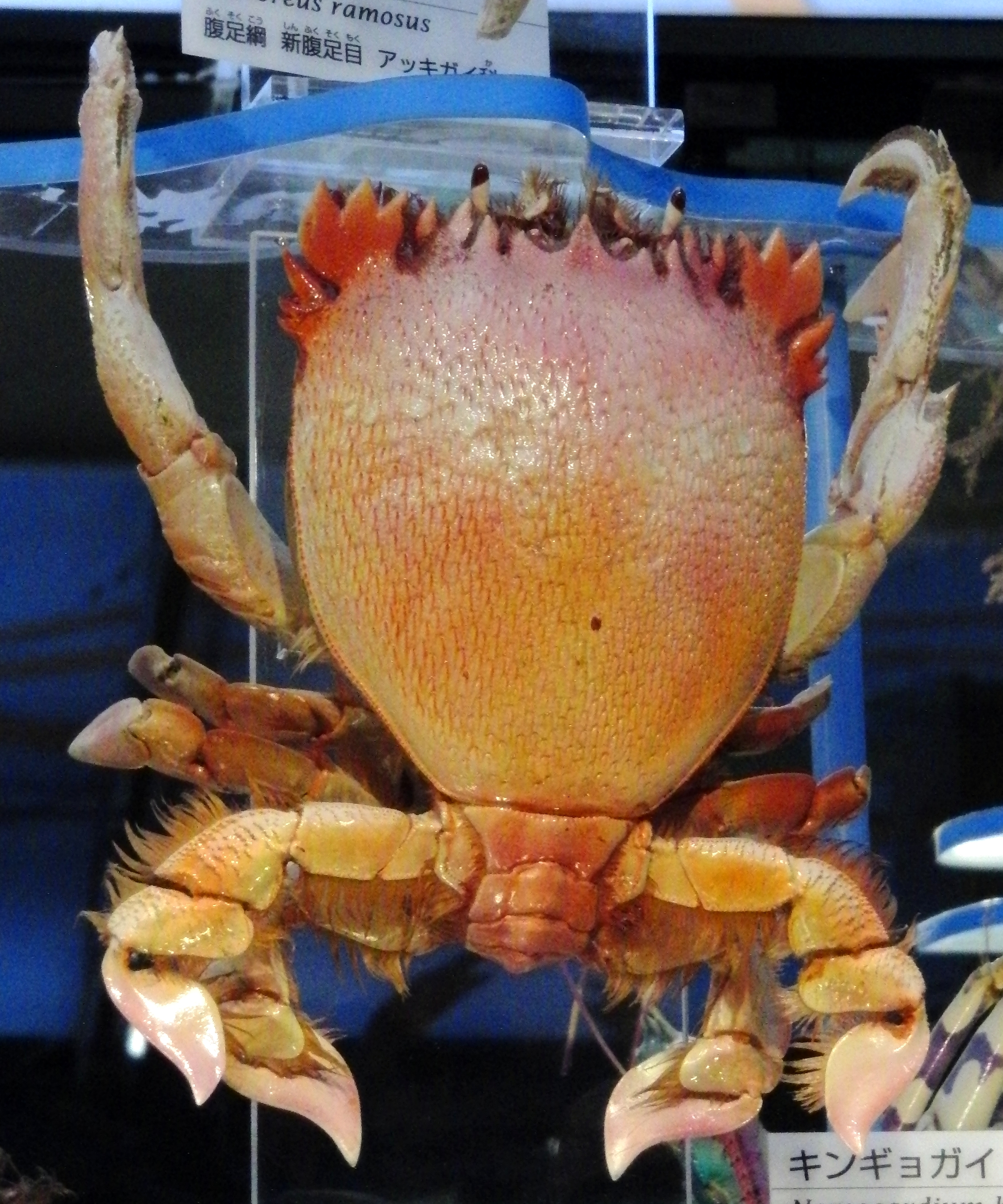 Stuffed specimen of Ranina ranina. Exhibit in the National Museum of Nature and Science, Tokyo, Japan.